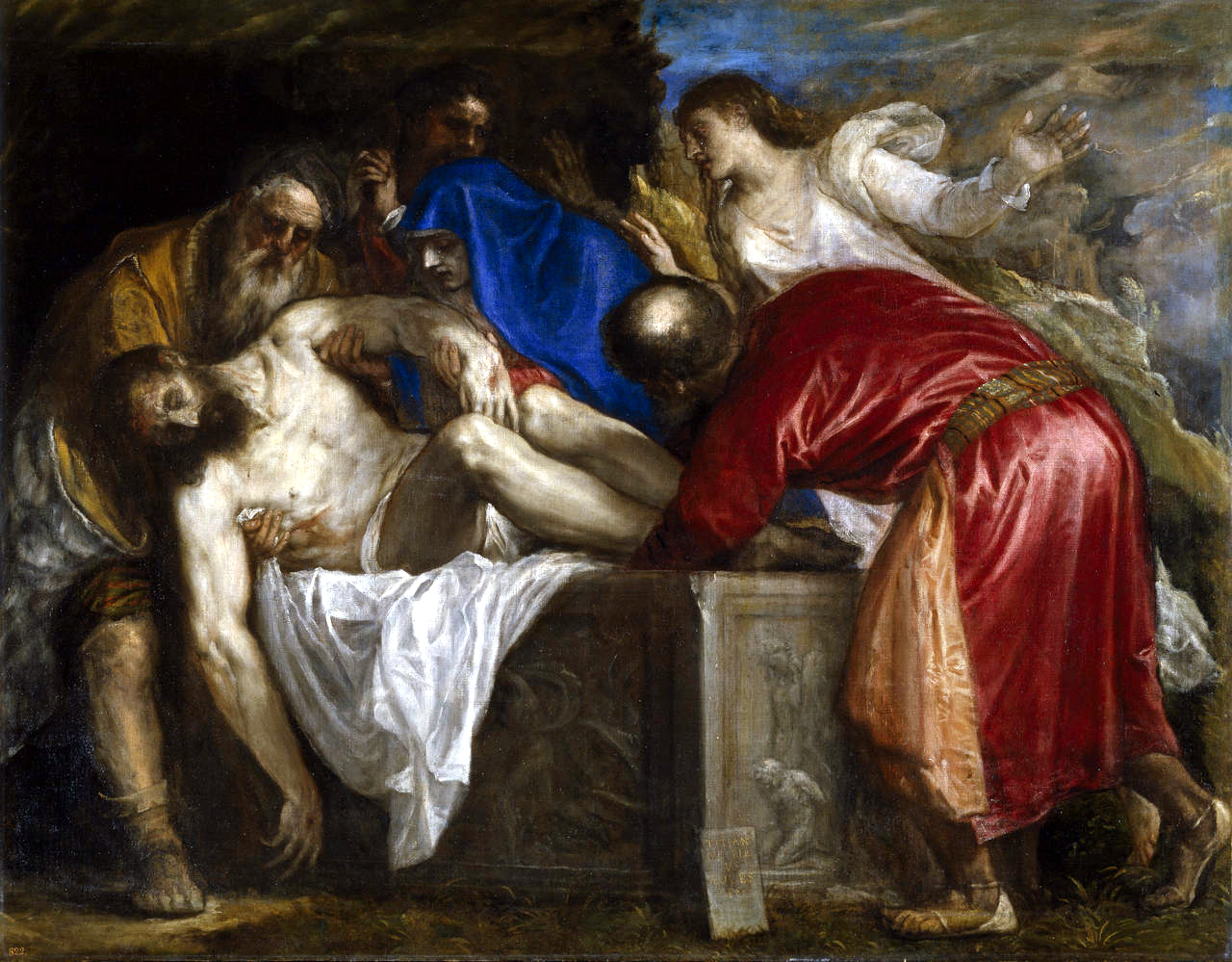 Joseph of Arimathea, Nicodemus and the Virgin Mary take Christ in the tomb watched by Mary Magdalene and Saint John the Evangelist.